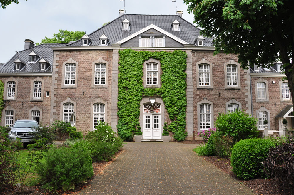 Chateau Thal Front facade